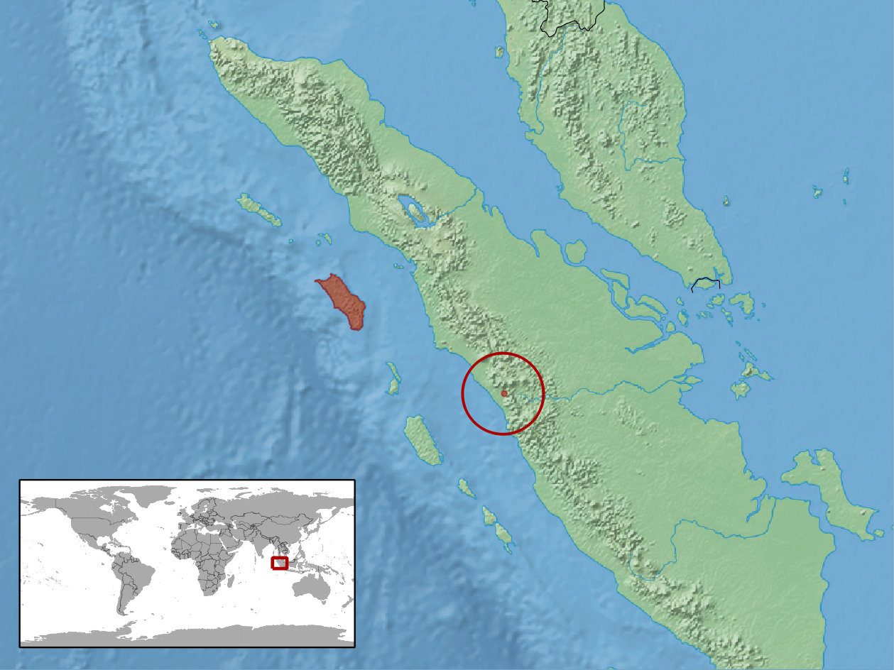 geographic distribution of Calamaria abstrusa (Native: Indonesia (Sumatera))